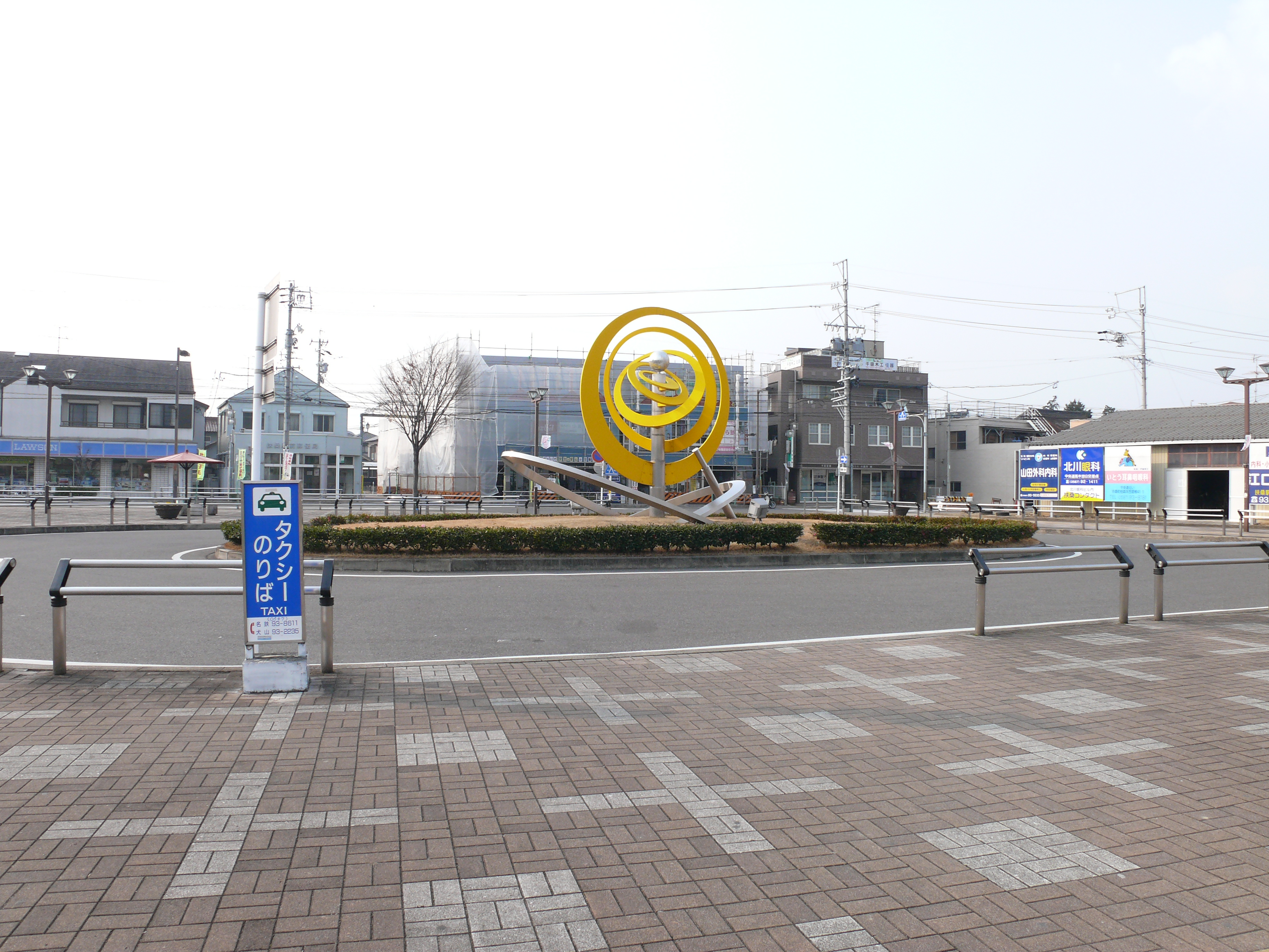 Meitetsu Fuso Station.